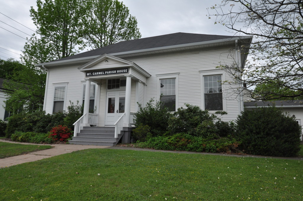 Mount Carmel Congregational Church and Parish House, Hamden, Connecticut. View of the parish house.